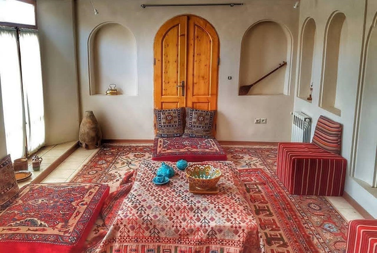 solhjou's_home